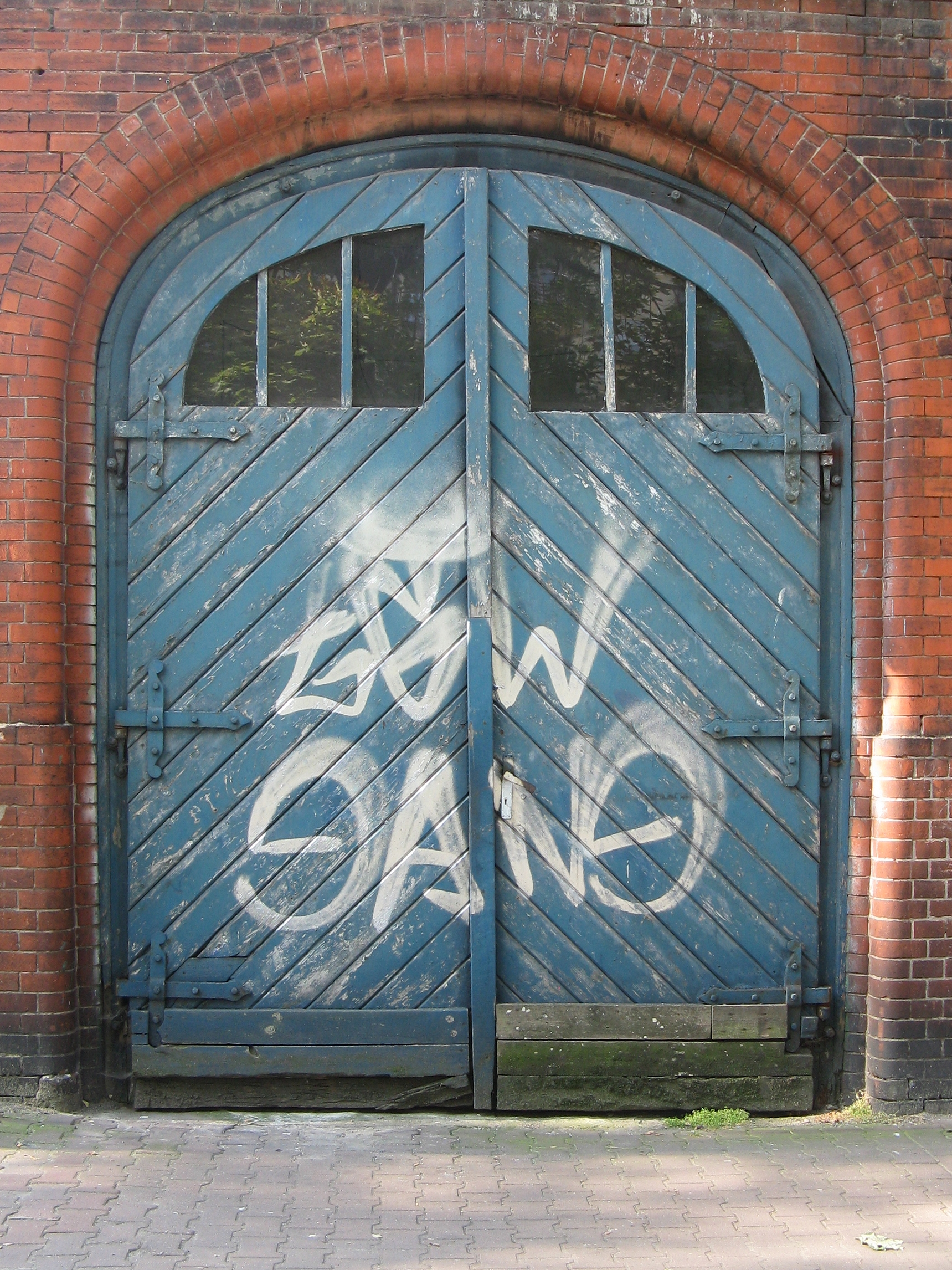 One of the doors of the fire station in Bytom-Łagiewniki, Poland.